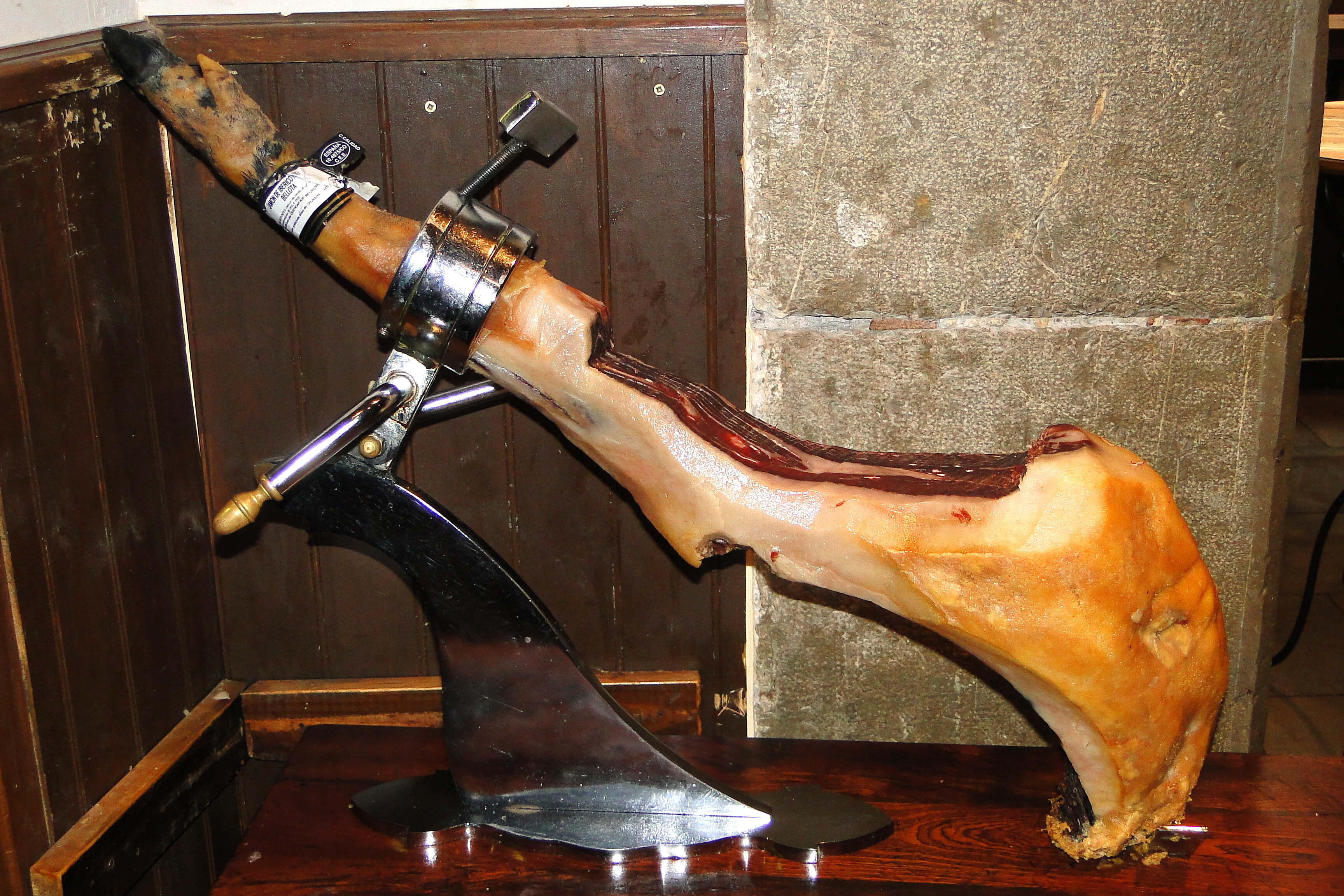 Jamon Serrano on the Slicing Block - Granada - Spain